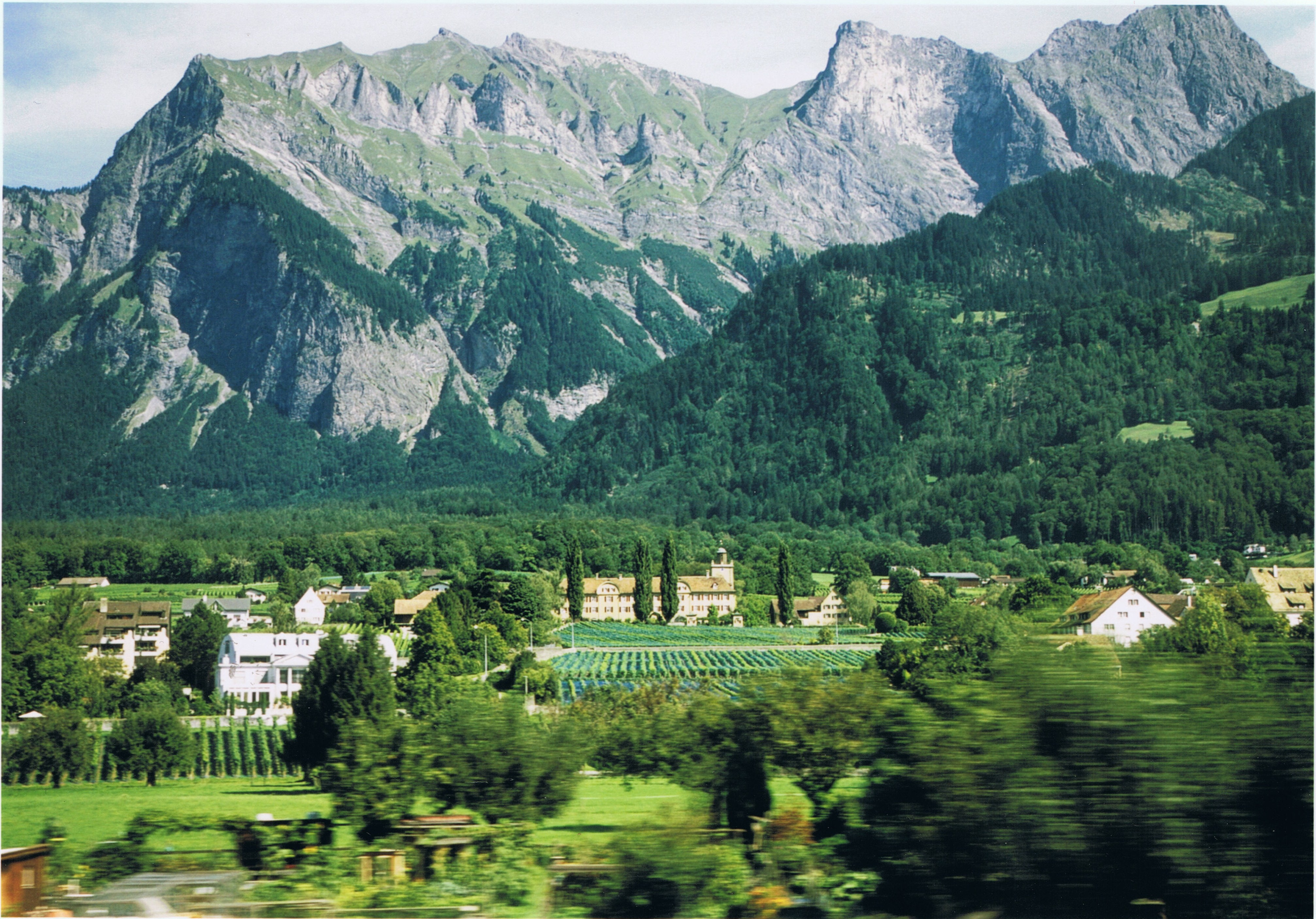 Maienfeld from the south, showing the main patrician house. photo taken by me, Rodolph de SalisRodolph